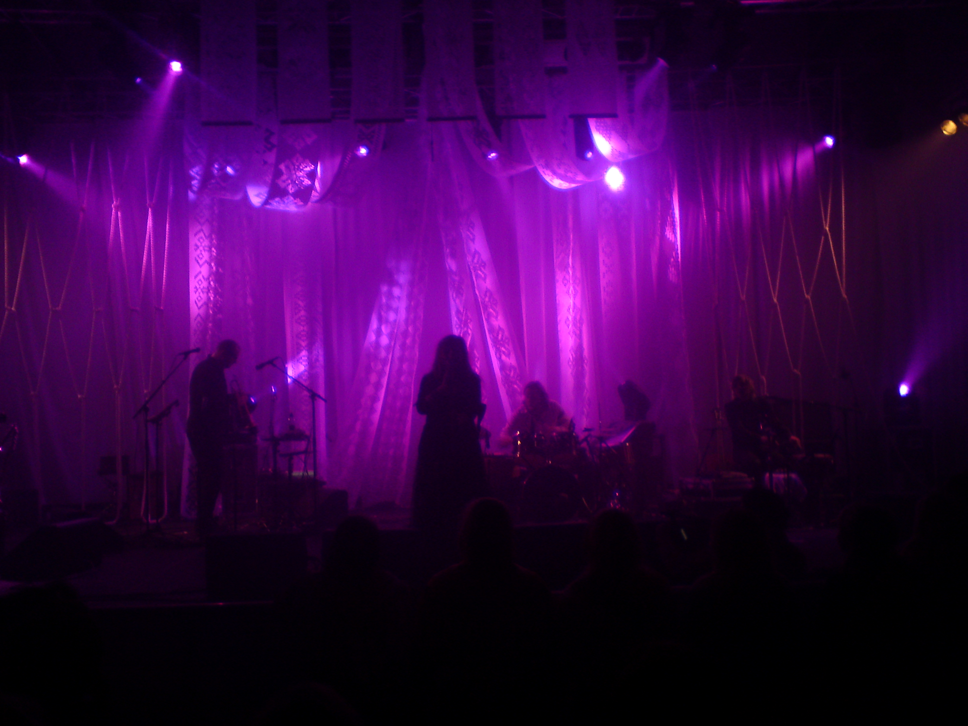 From Sami Grand Prix in Kautokeino 2010